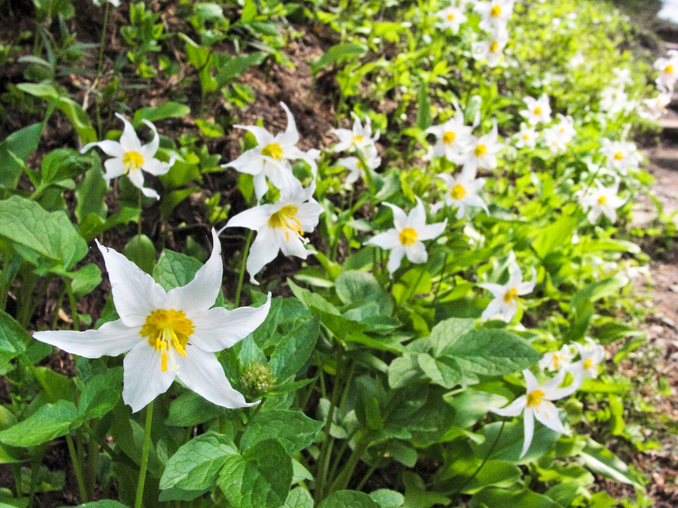 Avalanche lily (Erythronium montanum) on Mount Rainier Snow Lake trail